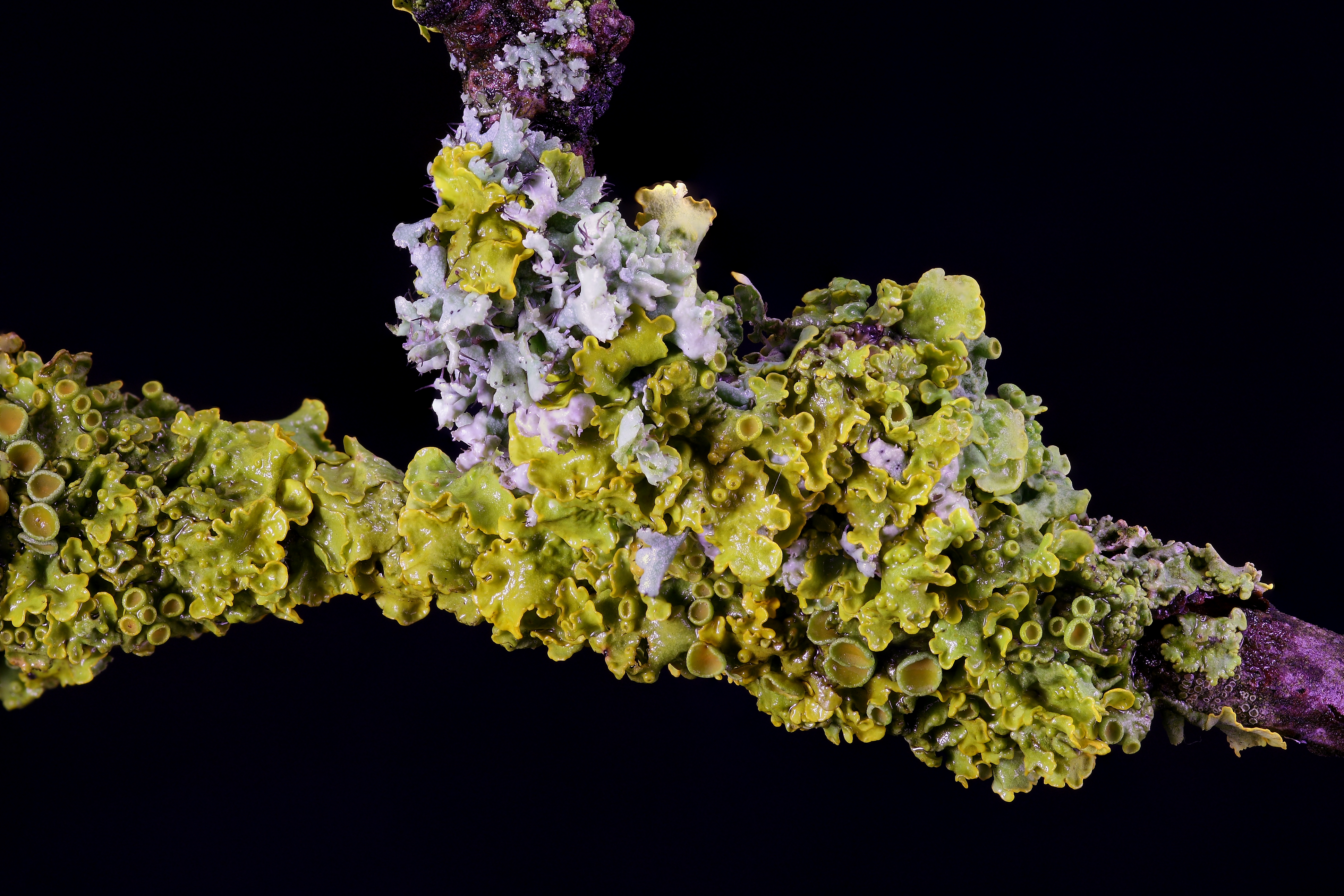 Xanthoria parietina yellow scale